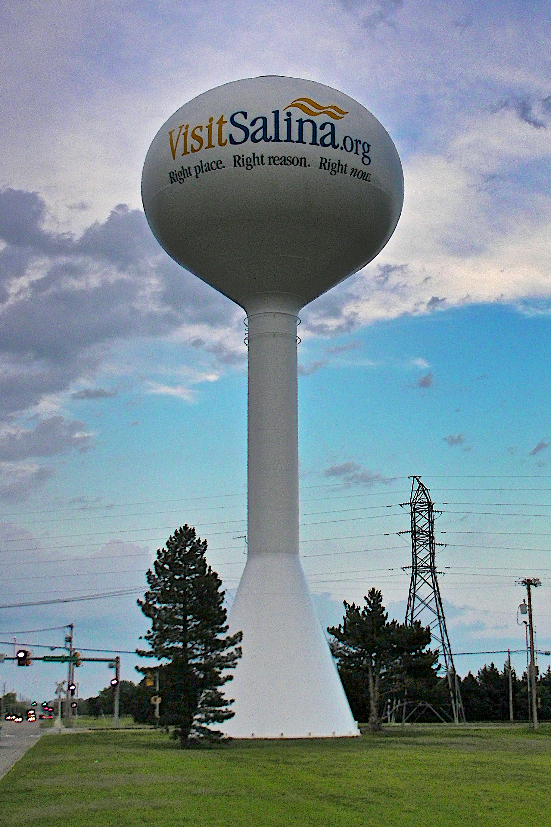 This is a water tower on the southeast side of Salina, bearing the city's name and the Chamber of Commerce's URL of , and their slogan of "Right place. Right reason. Right now."